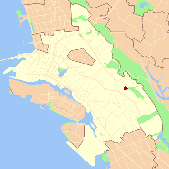 Map showing the location of Ridgemont in the city of Oakland, California. Created by User:Nogood using U.S. Census Bureau data.